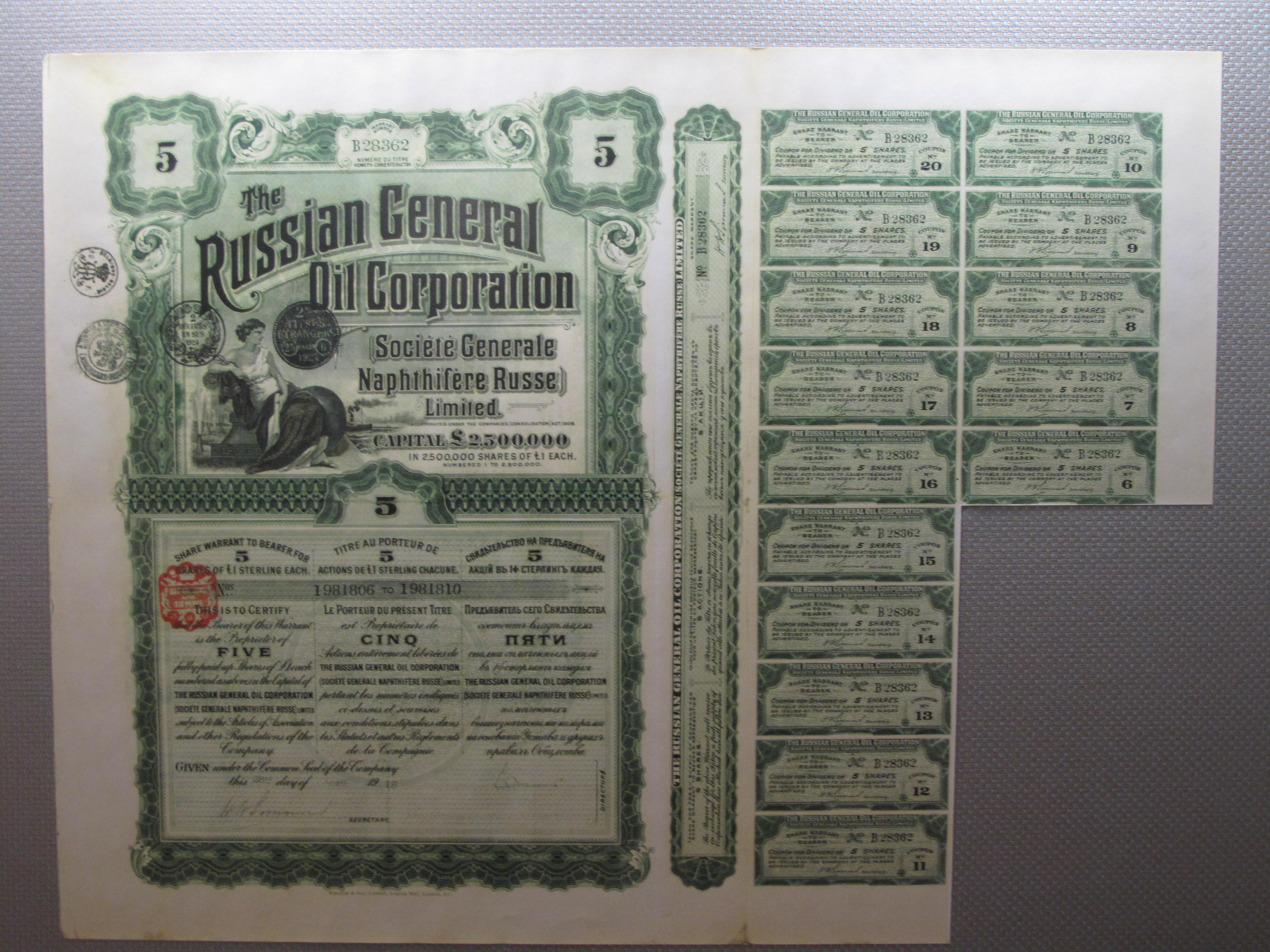 Share of Russian General Oil Corporation